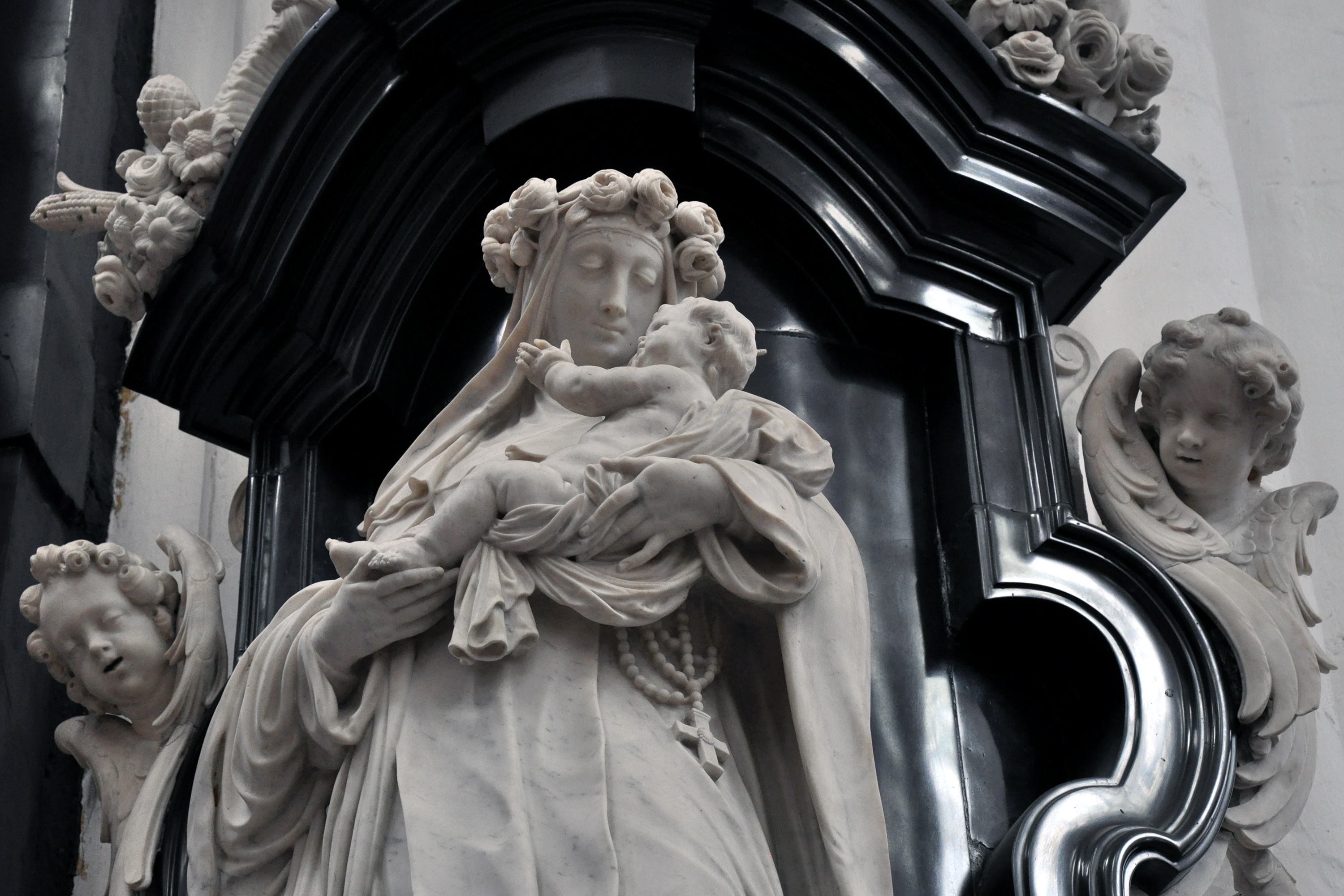 St. Paul's Church in Antwerp. Altar of St. Rosa of Lima, statue by Artus Quellinus II